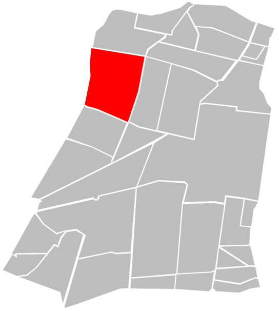 Map of Delegación Cuauhtémoc in Mexico City, with Santa María la Ribera highlighted in red